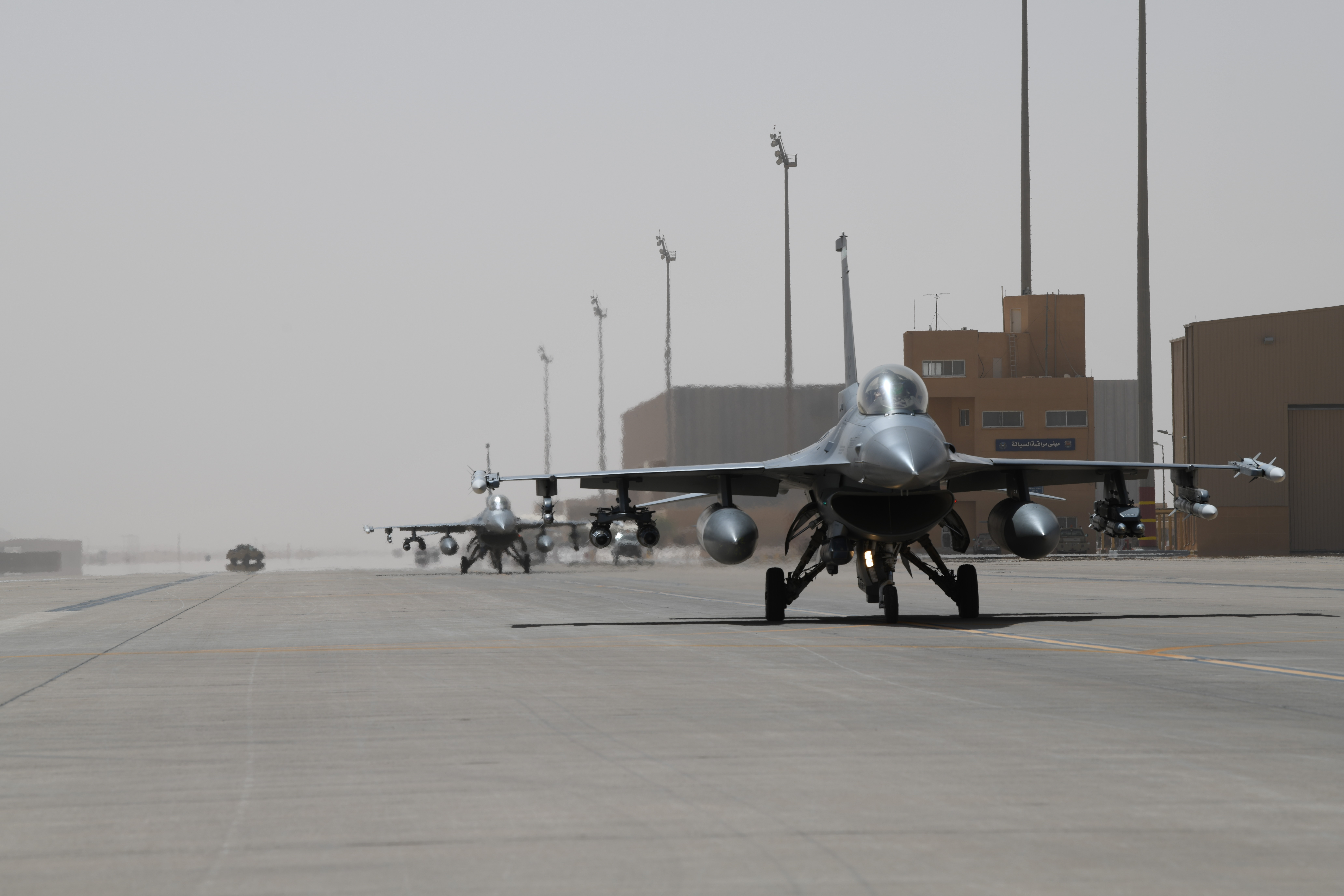 Two U.S. Air Force F-16 Fighting Falcons assigned to the 555th "Triple Nickel" Expectationary Fighter Squadron taxi on the flight line at Prince Sultan Air Base, Kingdom of Saudi Arabia, Feb. 26, 2020. As a part of the Triple Nickel out of Aviano Air Base, Italy, these jets will focus on combat and deterrence operations in their area of responsibility. (U.S. Air Force photo by Senior Airman Giovann Sims)